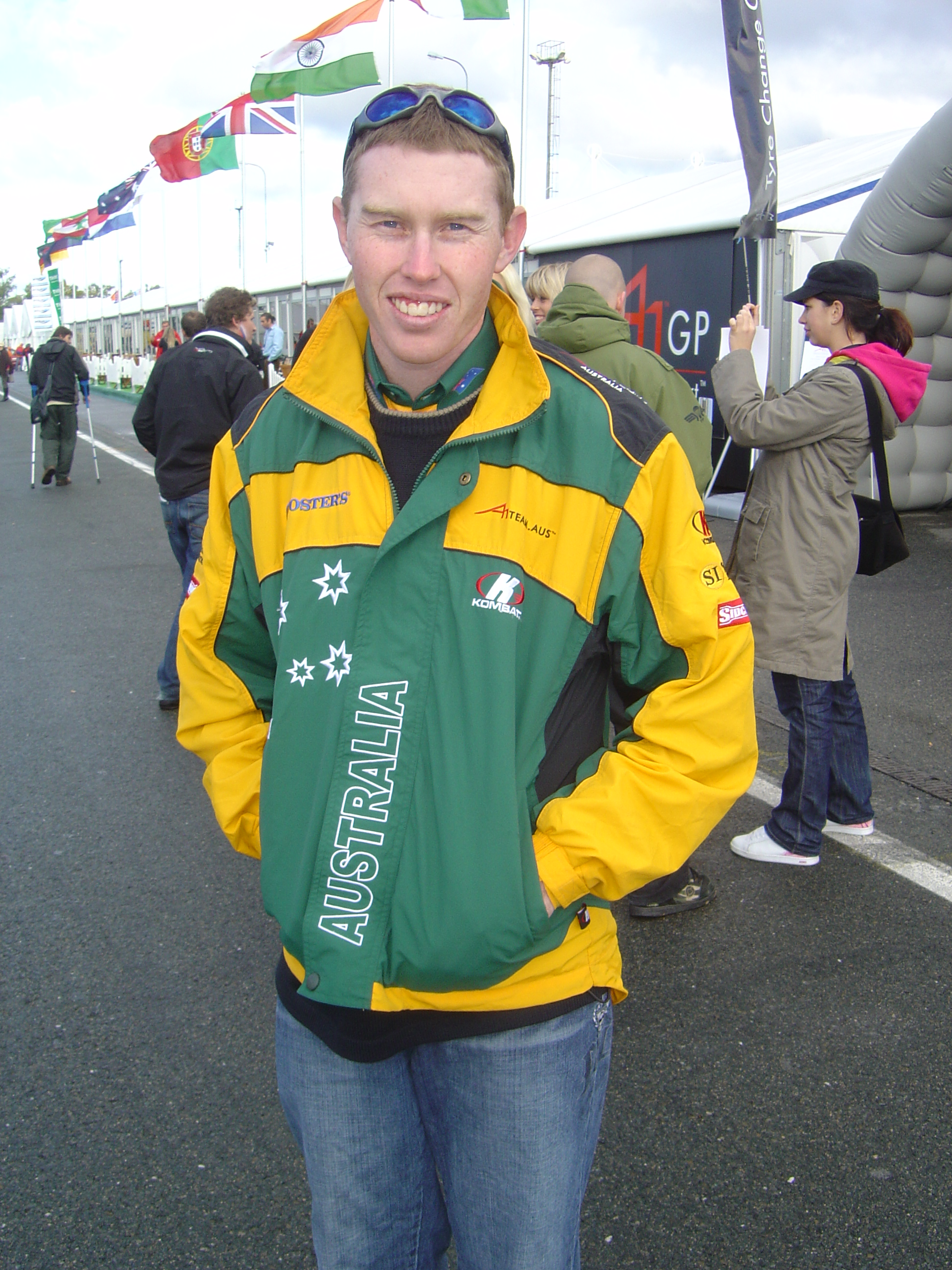 John Martin: the photo was taken during 2007's A1GP race weekend at Brno